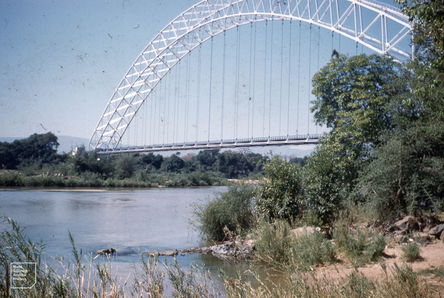 Birchenough Bridge